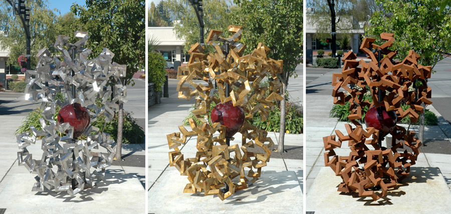 Sculpture "Heart of Steel (Hemoglobin)", 2005, Weathering steel and glass, height: 5’ (1.60 m), location until Fall 2007: 1st Street/"A" Avenue, City of Lake Oswego.